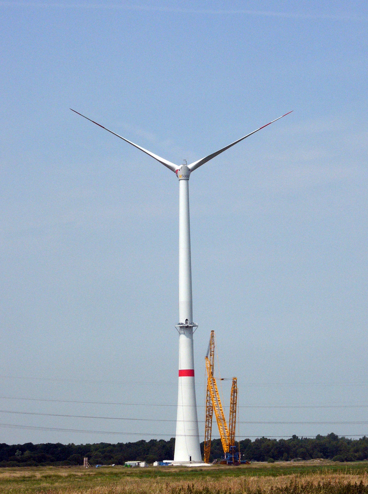 Wind turbine Multibrid. 3rd turbine, installed close to Bremerhaven in 2008, Germany